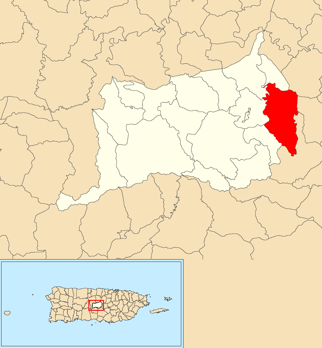 Botijas, Orocovis, Puerto Rico locator map